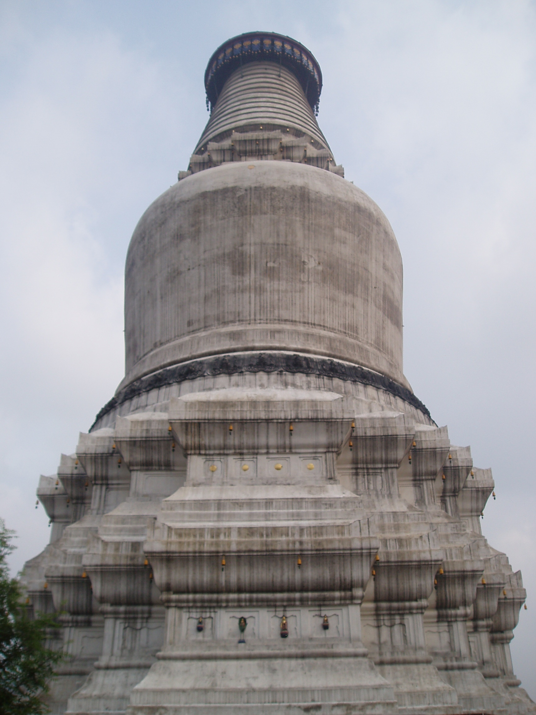 The Great White Pagoda of Tayuan Temple in Wutaishan, Shanxi province, China. It was built in 1582 (as inscribed on a stone tablet there), during the Ming Dynasty